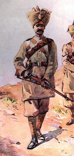 Watercolour of an Awan sepoy, painted by Major A.C. Lovett, circa the early 20th century. The painting is included in the book, The Armies of India (publised in 1911). The image can be found at: Copyright tag: The author of The Armies of India, who also painted this image, died in 1919.